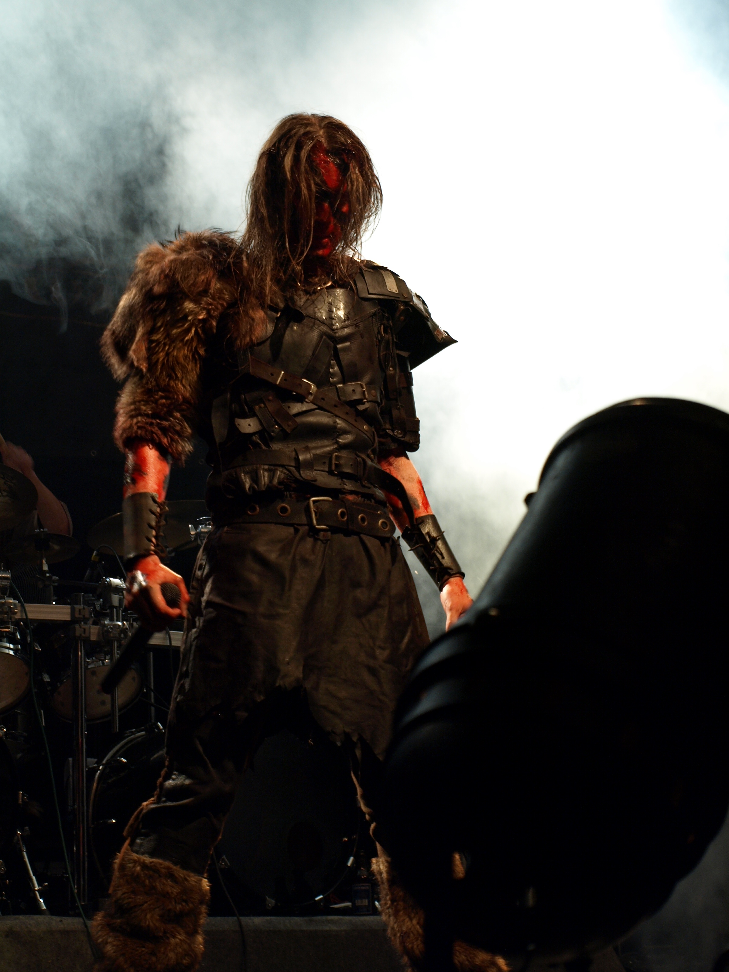 Finnish metal band Turisas live at Jalometalli 2008 in Oulu.